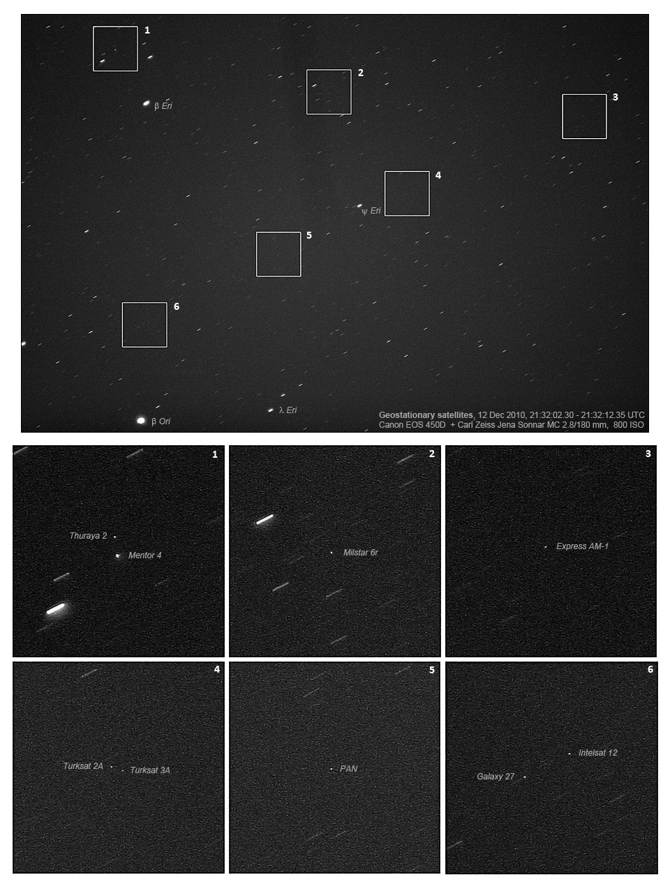 A 5 x 6 degrees view of a part of the geostationary belt, showing several geostationary satellites. Those with inclination 0 degrees form a diagonal belt across the image: a few objects with small inclinations to the equator are visible above this line. Note how the satellites are pinpoint, while stars have created small trails due to the Earth's rotation. Image by Marco Langbroek, the Netherlands, 12 Dec 2010, with a Carl Zeiss Jena Sonnar MC 2.8/180mm lens, Canon EOS 450D @ 800 ISO, 10s exposure.